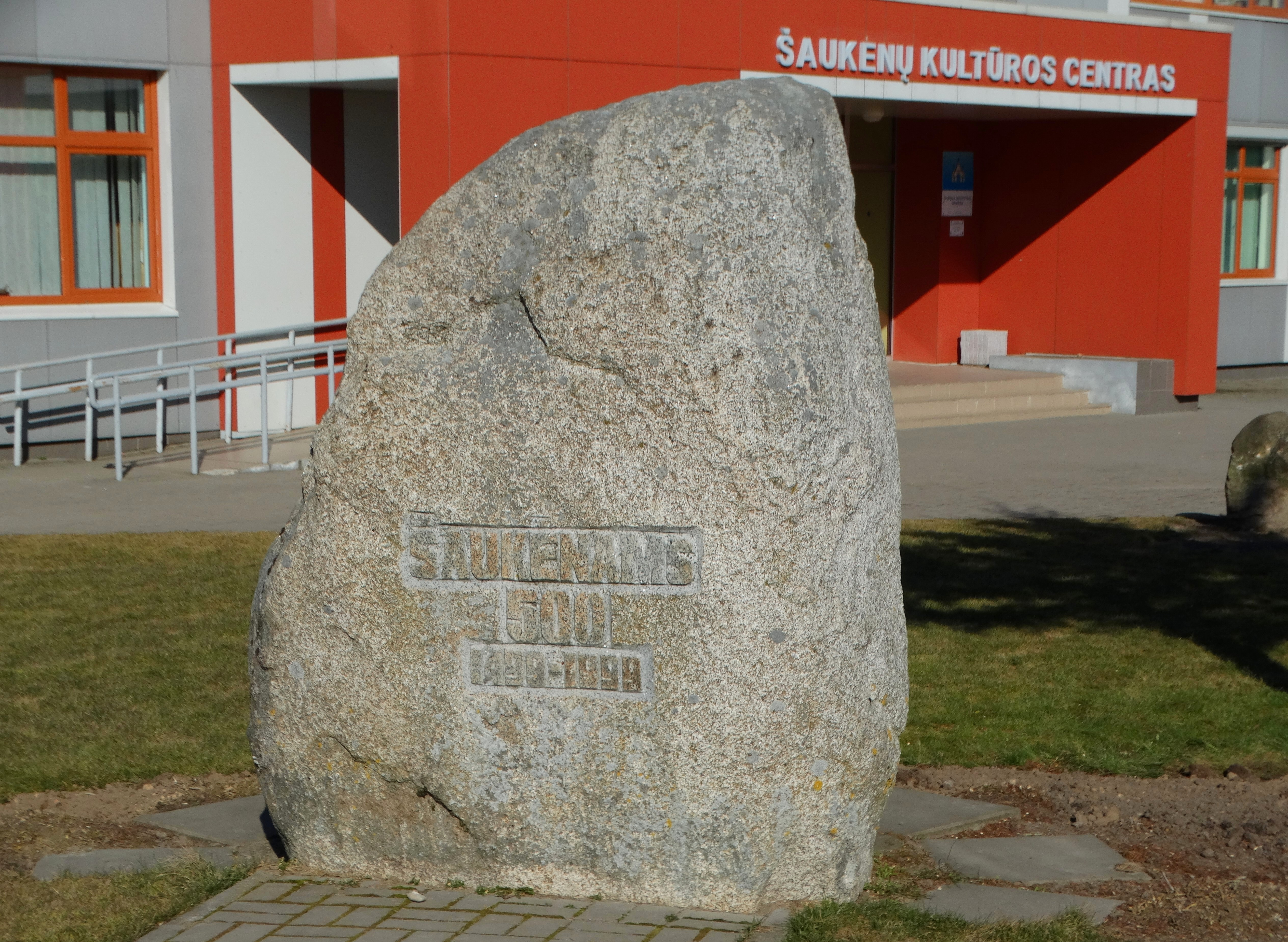 Stone, Šaukėnai, Kelmė district, Lithuania